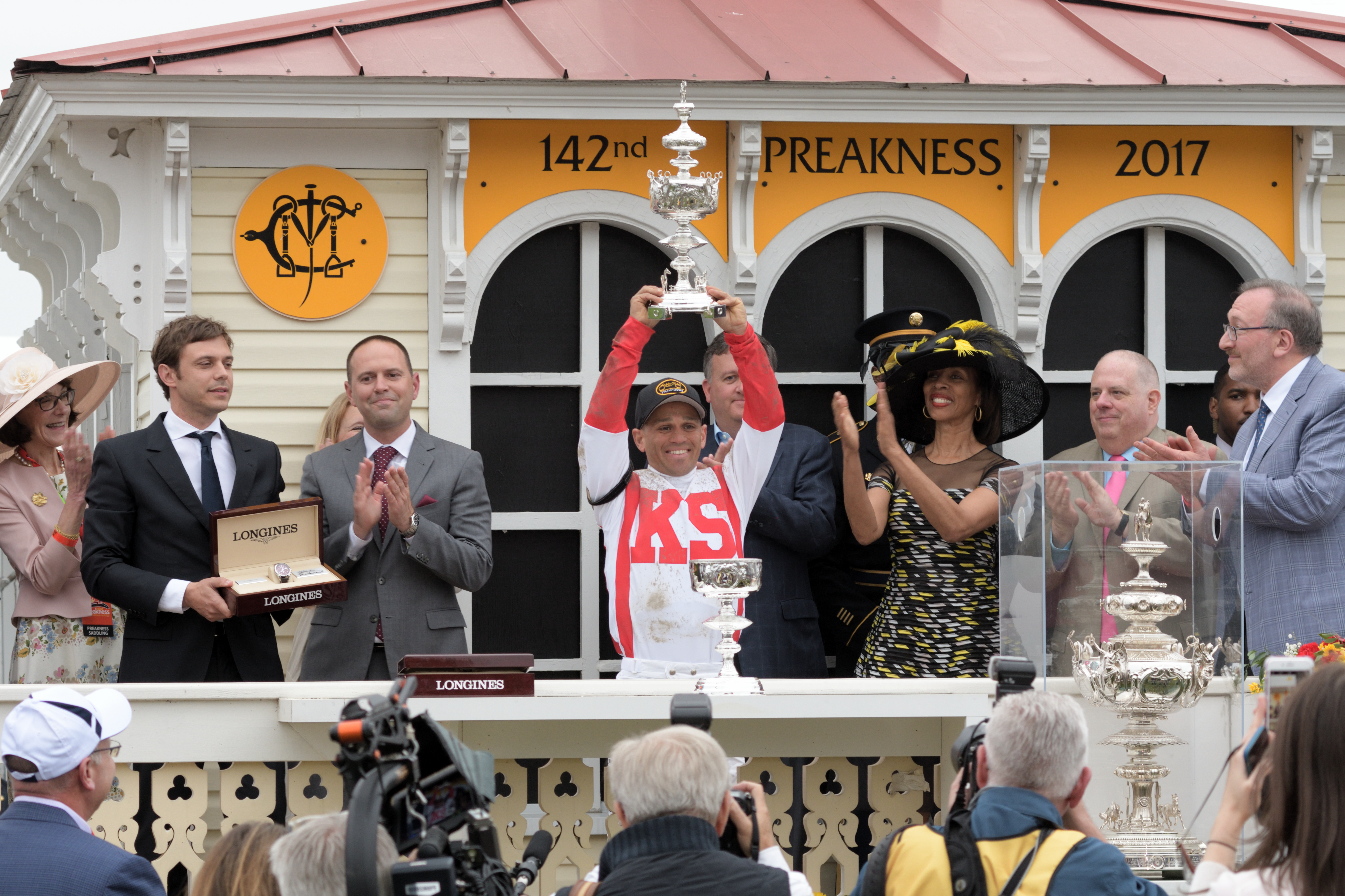 Governor Hogan, Lt. Governor Rutherford, First Lady Yumi Hogan Attend The 142nd Preakness by staff at Pimlico Race Track 5201 Park Heights Ave Baltimore, Maryland 21215 Photos from the 2017 Preakness Stakes. Governor Hogan, Lt. Governor Rutherford, First Lady Yumi Hogan attend the 142nd Preakness. Photos were taken by staff at Pimlico Race Track (5201 Park Heights Ave Baltimore, Maryland) on May 20, 2017.